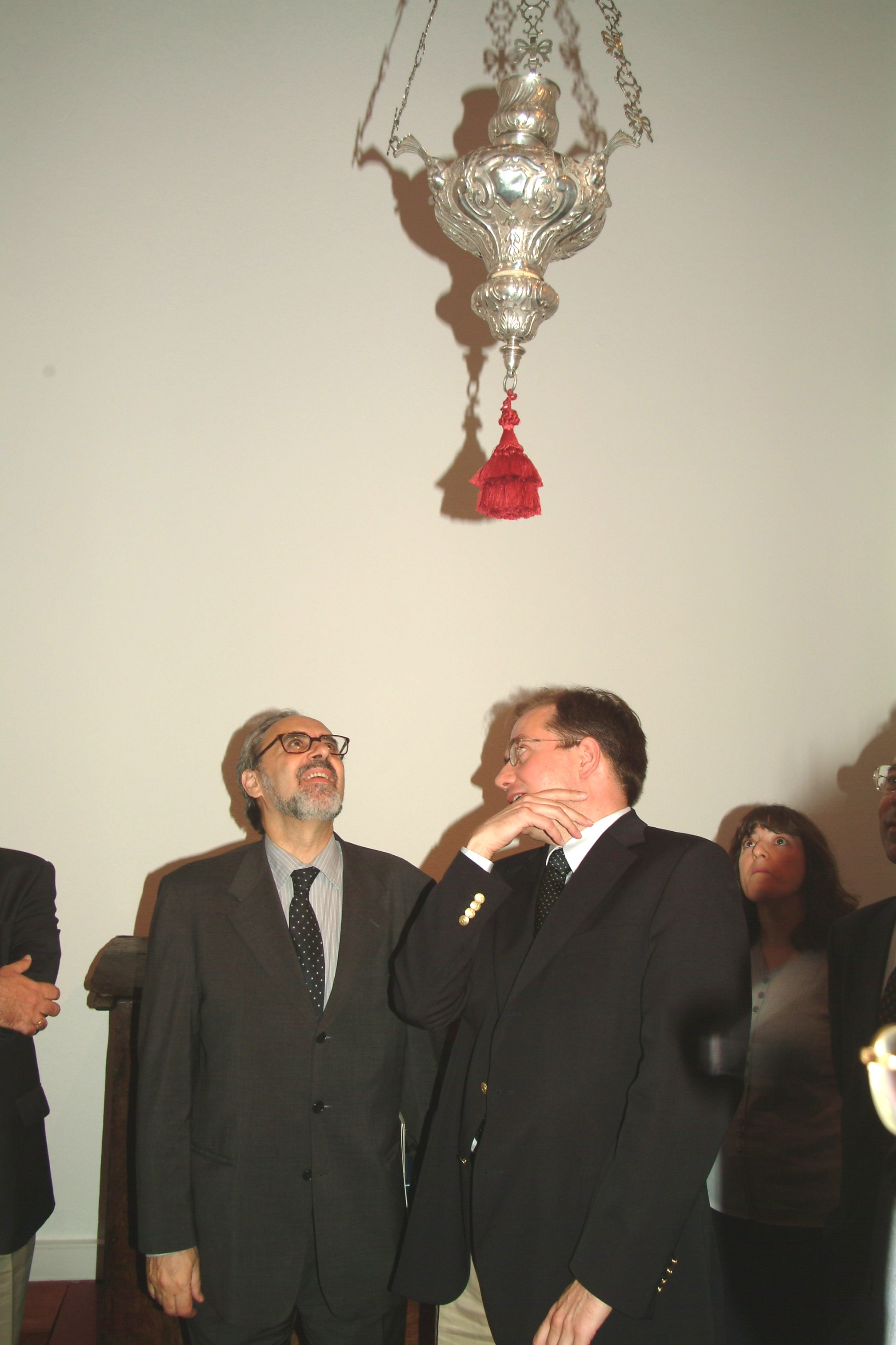 Tesouro Colegiada de Santiago